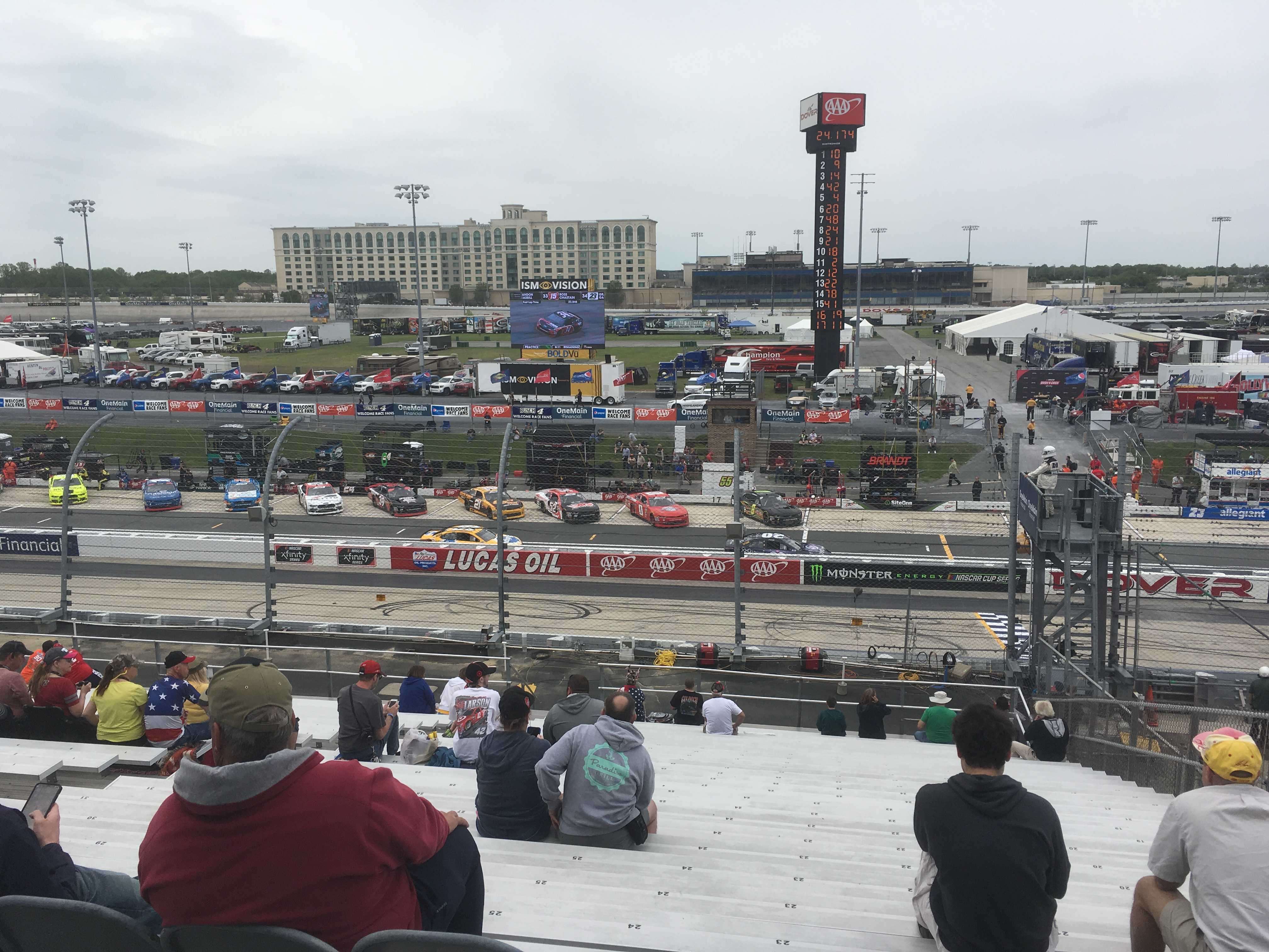 Final practice for the 2018 AAA 400 Drive for Autism at Dover International Speedway viewed from the frontstretch. Erik Jones (#20) and Kyle Busch (#18) drive by on pit road.